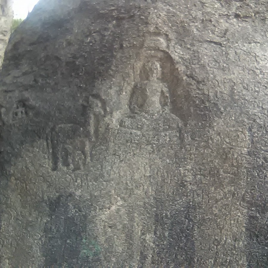 ஒசூர் வெங்கடரண சாமி குன்றில் உள்ள வெங்கட ரமண சாமி கோயில் வளாகத்தில் உள்ள சமண தீர்தரங்கர் சிற்பம்